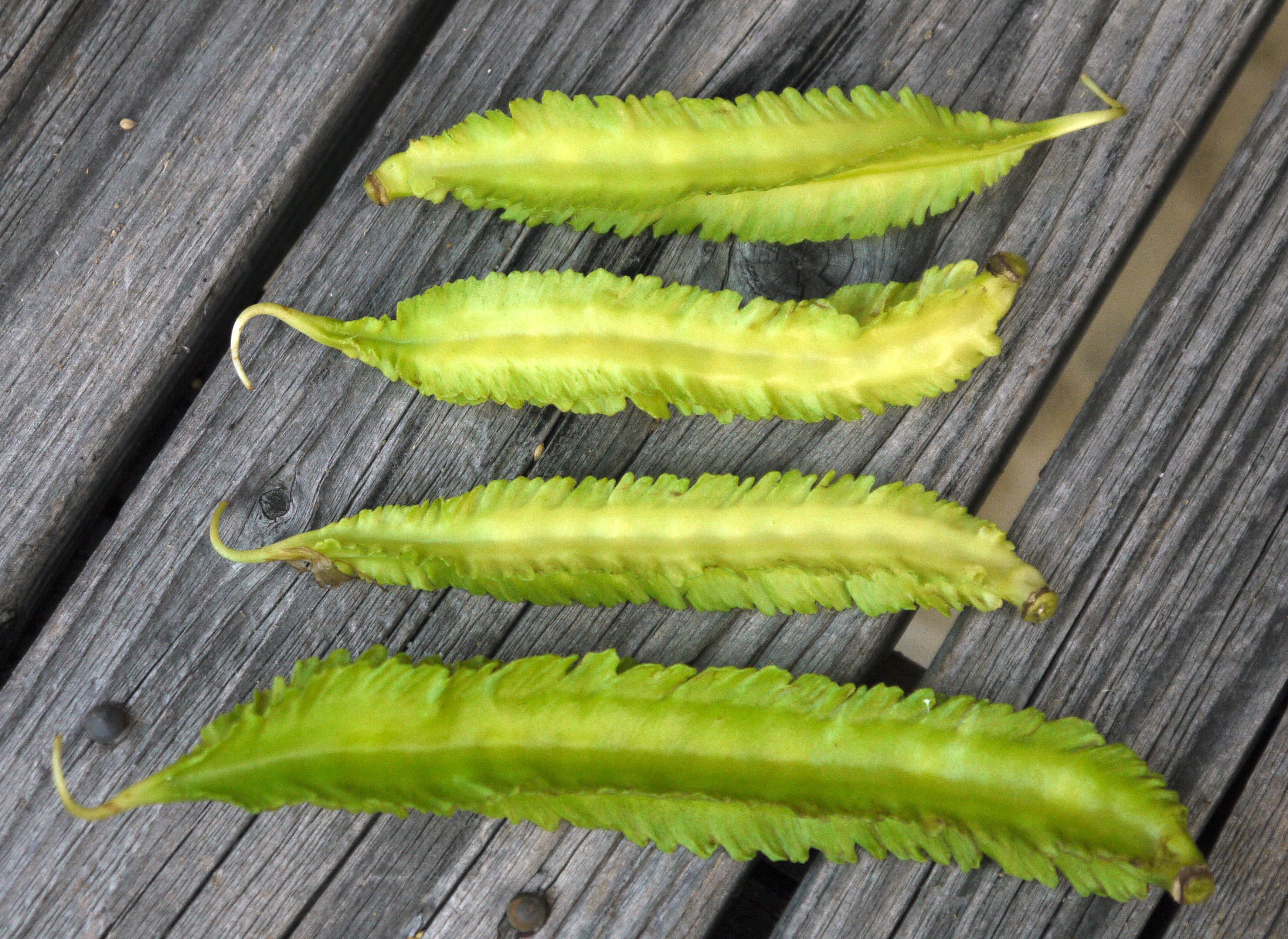 == Licensing: ==